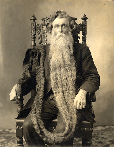 Hans Langseth (1846–1927) at age 66 seated in ornate chair with beard draped over his shoulder and down to his hand.